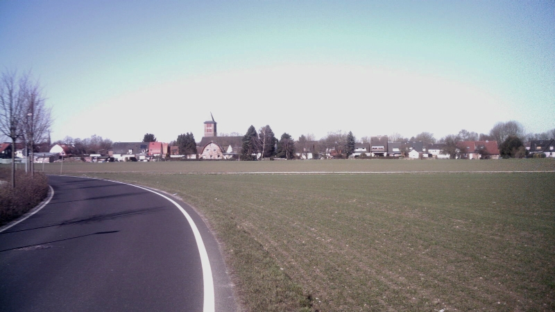 Skyline of Hamm, Viersen, Germany